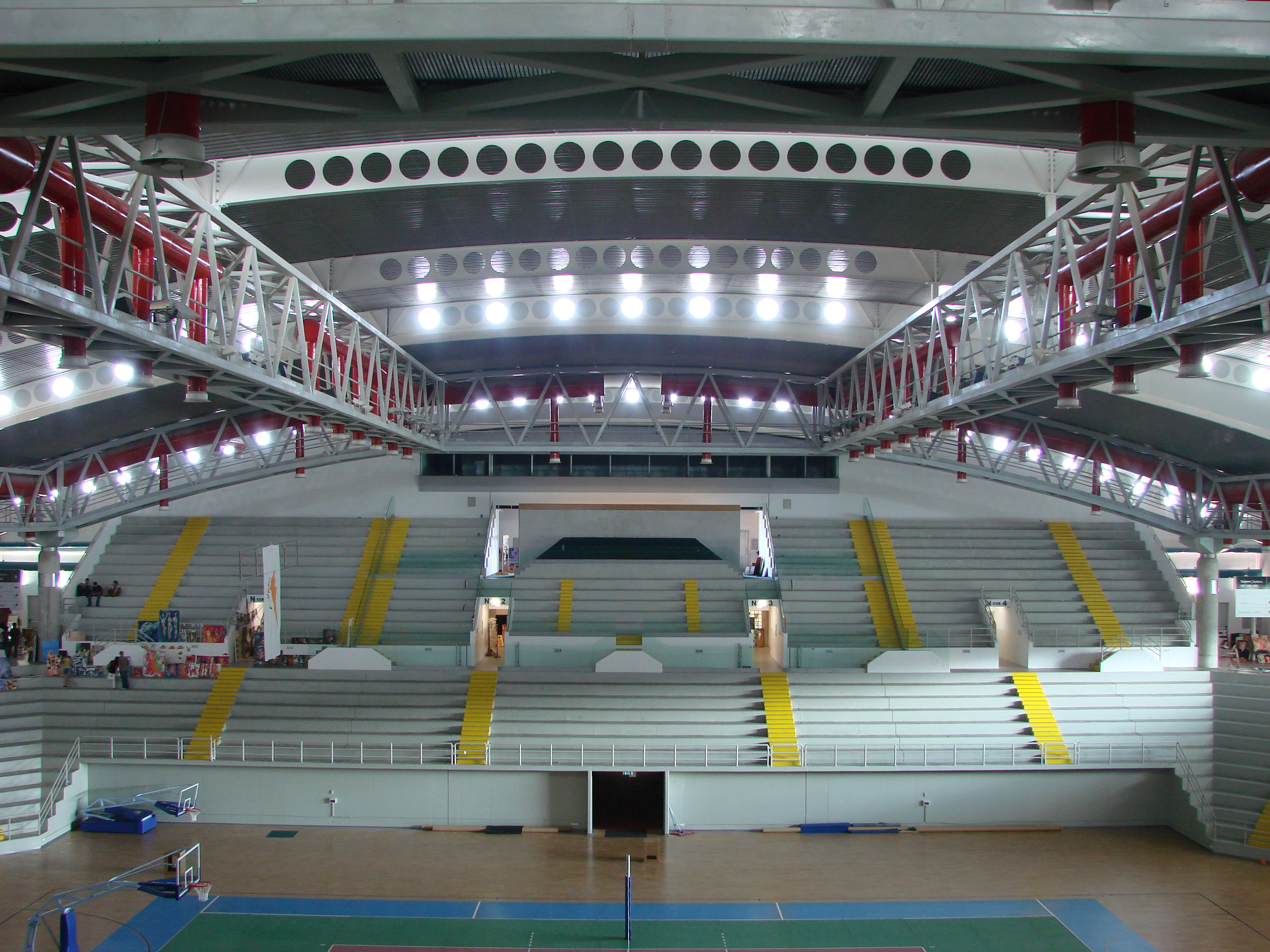 Spyros Kyprianou Athletic Center in Limassol